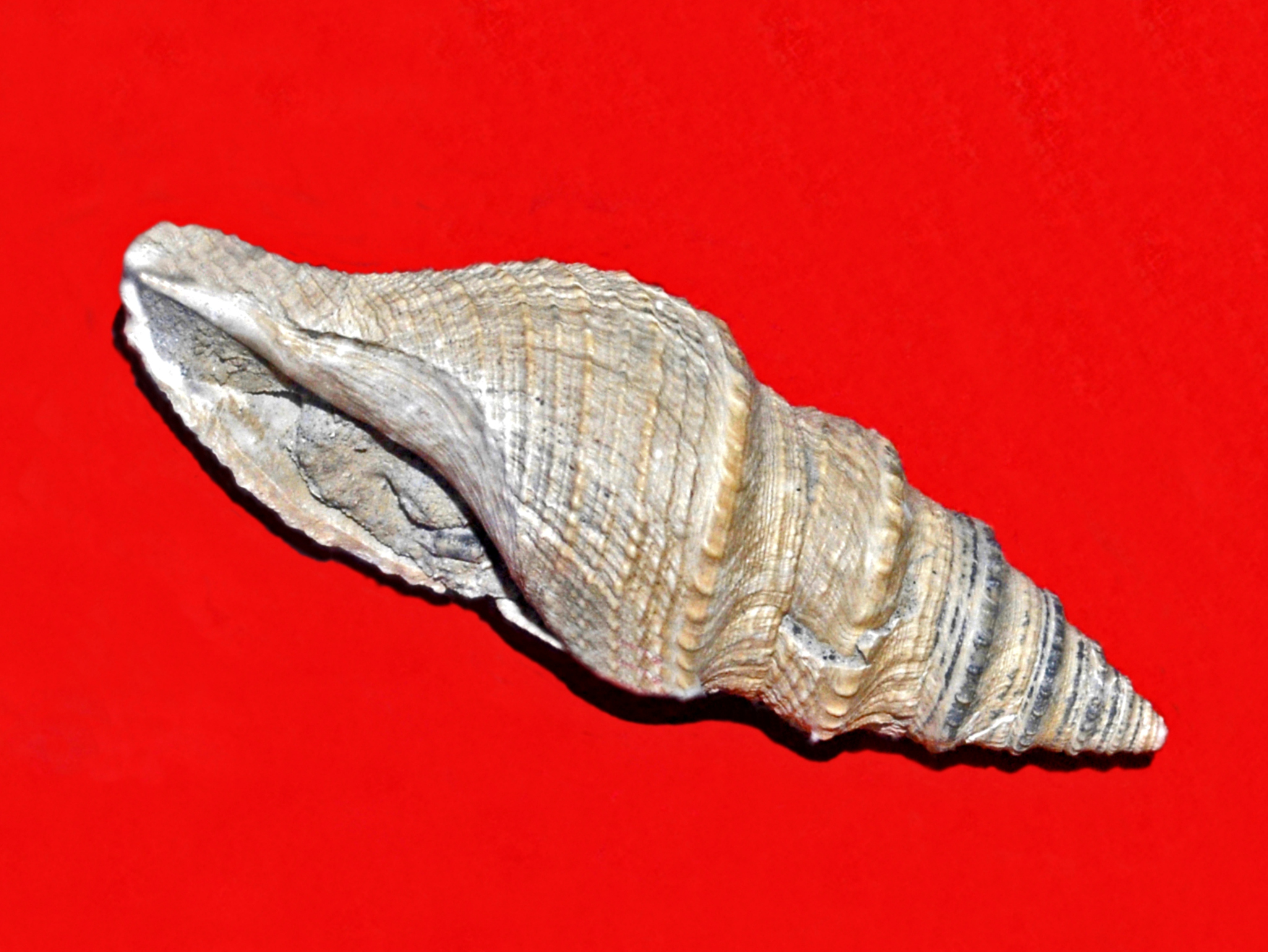 Fossil shell of Acamptogenotia intorta (synonym of Pseudotoma intorta